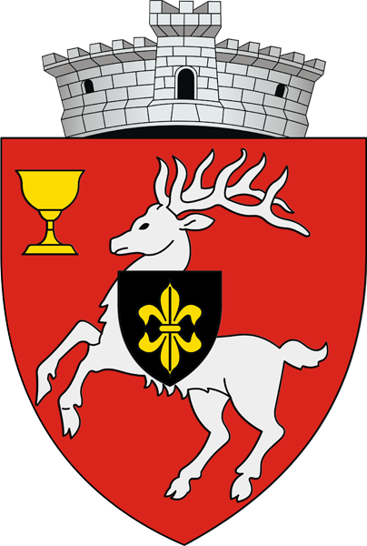 Coat of arms of Șerbăuți, Suceava County, Romania.